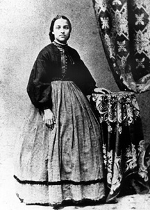 Portrait of Mary Jane Patterson in 1862